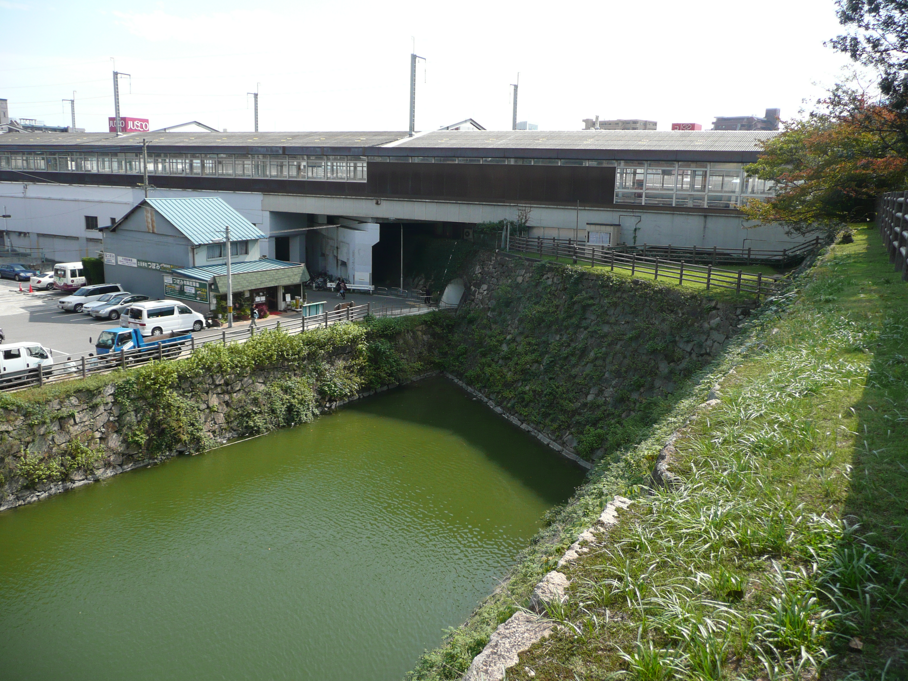 三原駅にめり込む石垣